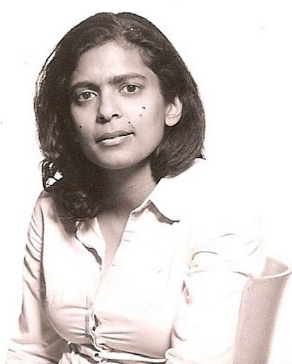 Rupa Huq 2006